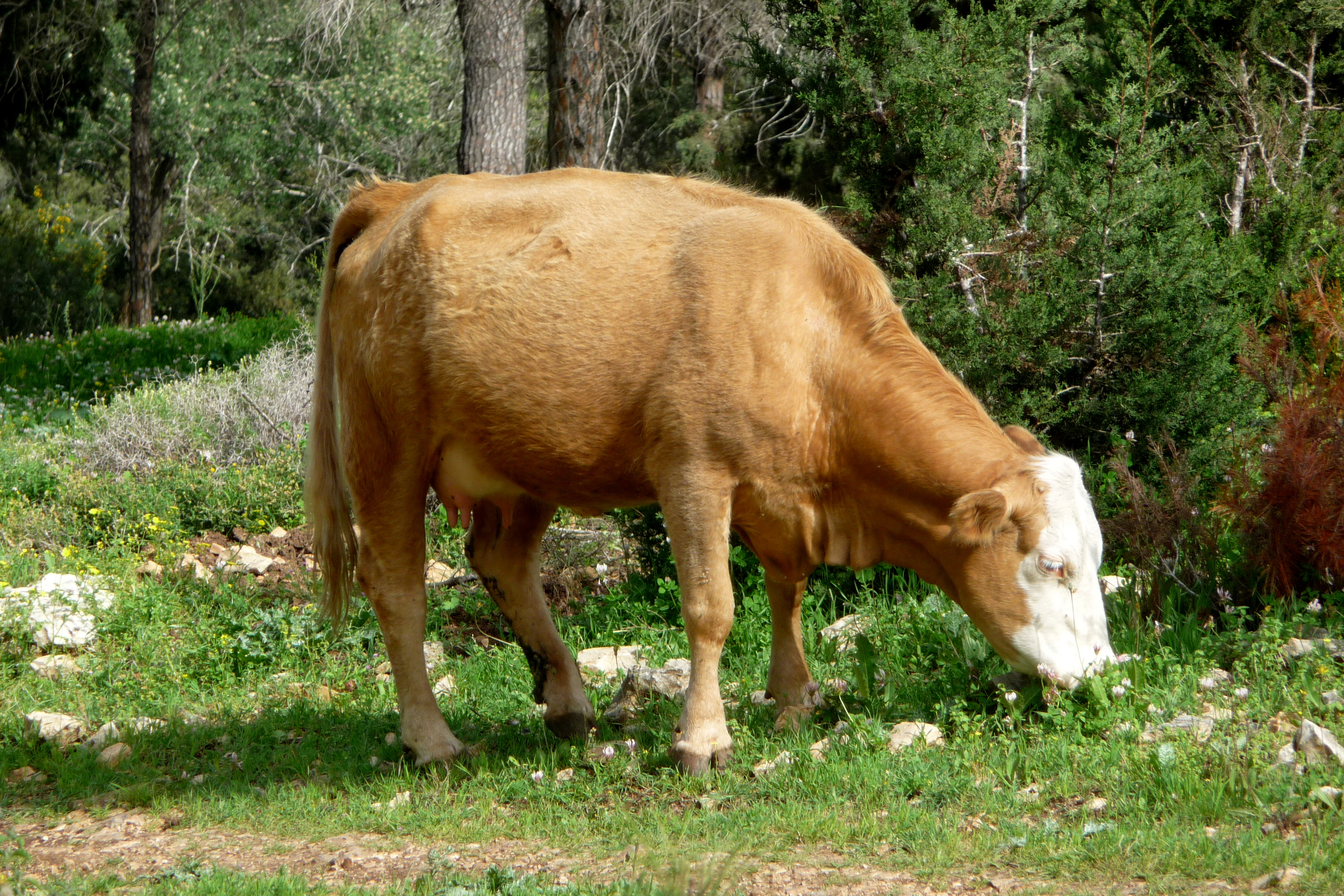 Carmel Park